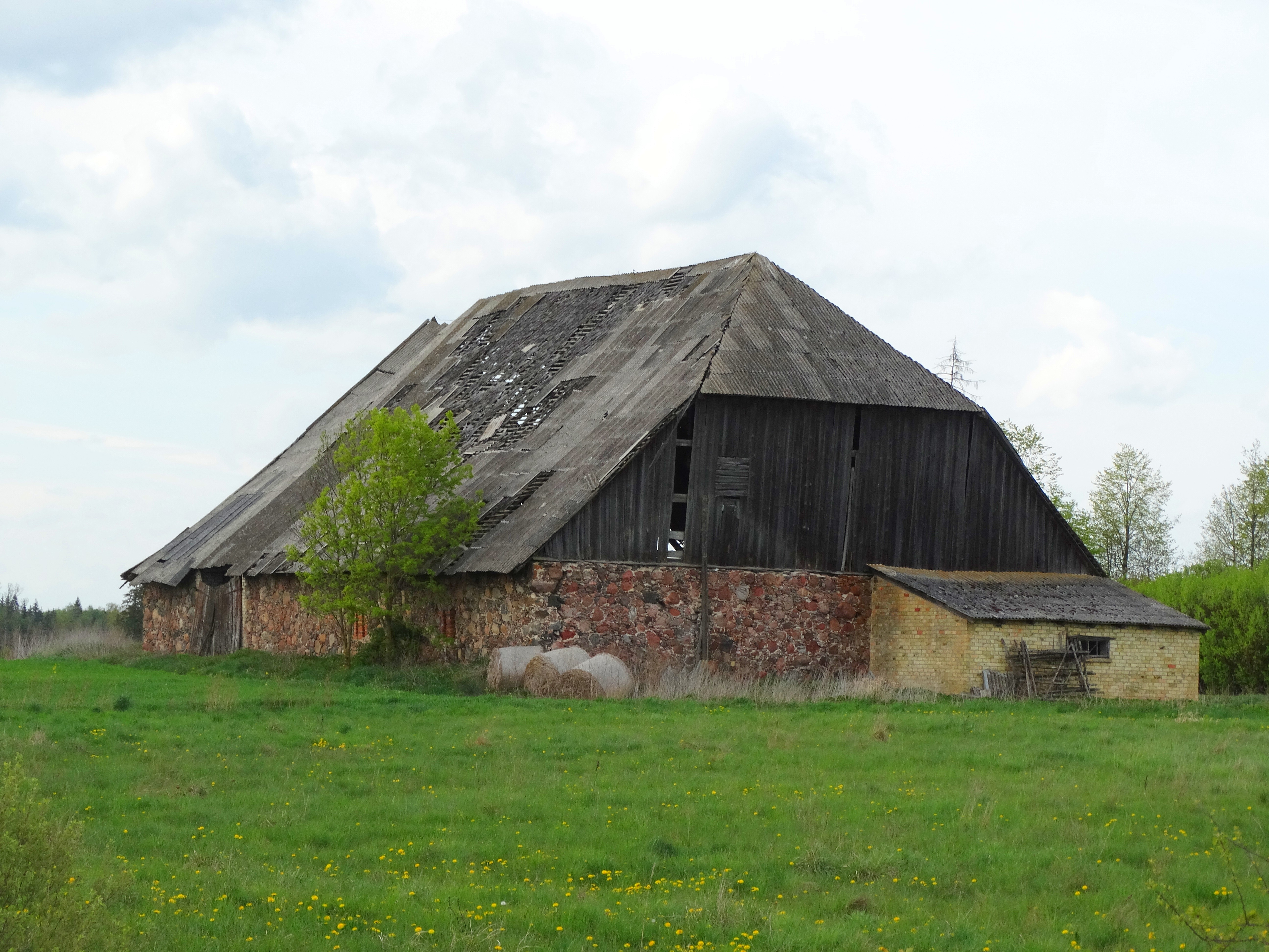 Viešvilė, Radviliškis District, Lithuania